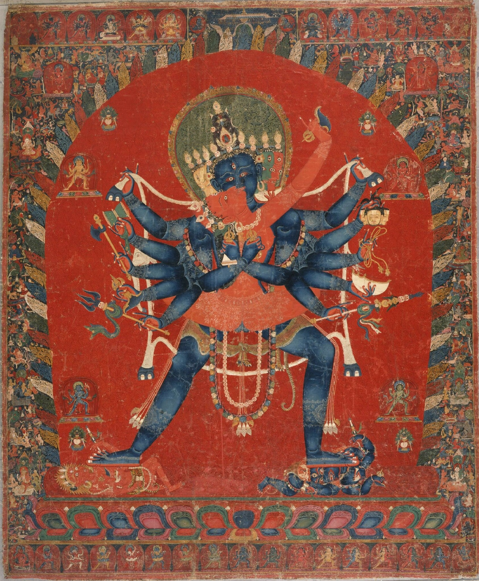 The Buddhist Deities Chakrasamvara and Vajravarahi 15th century. LACMA